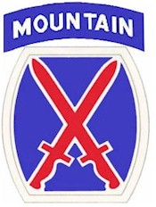 10th Mountain Division Shoulder Sleeve Insignia